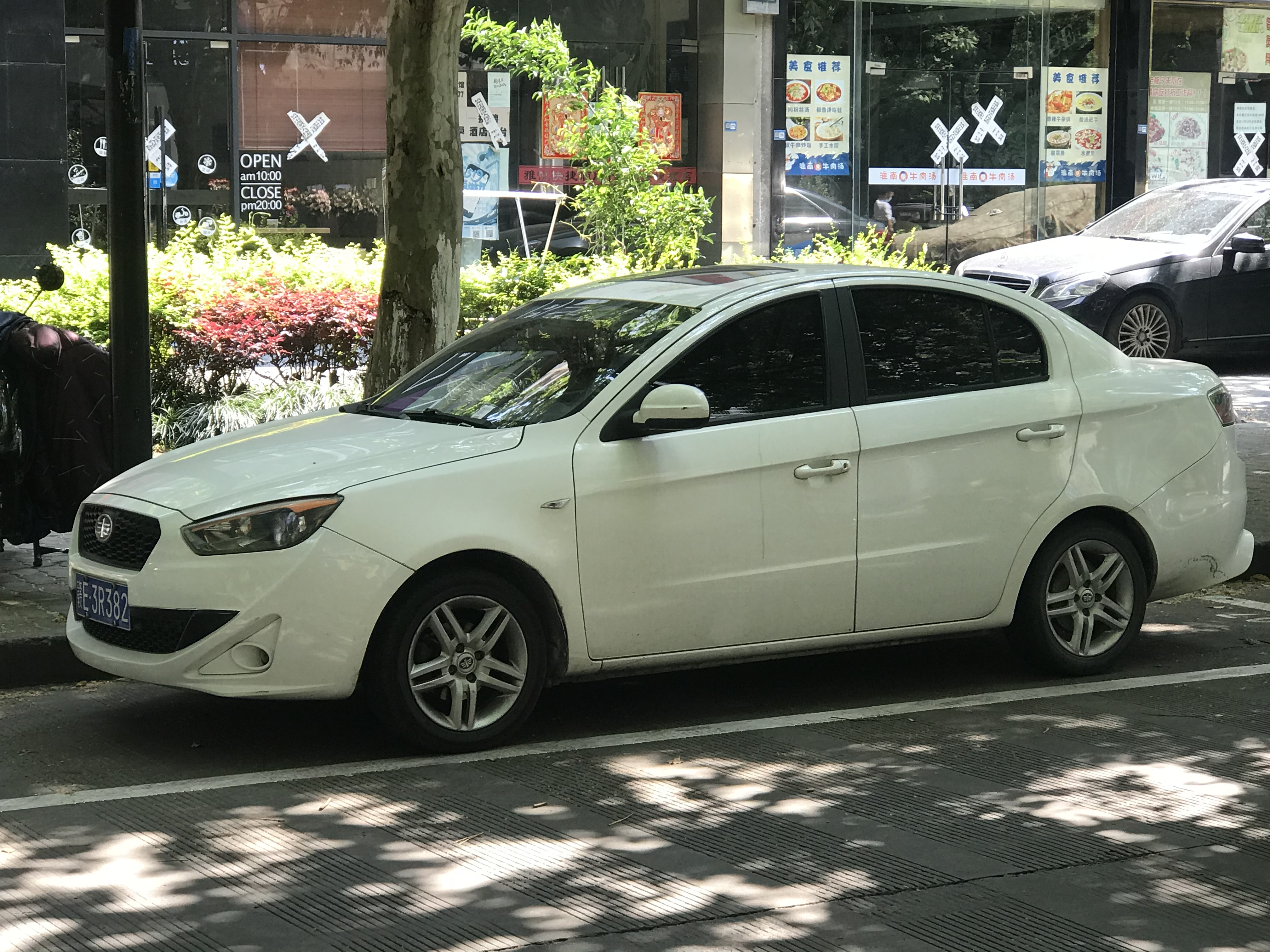 FAW Oley sedan front quarter